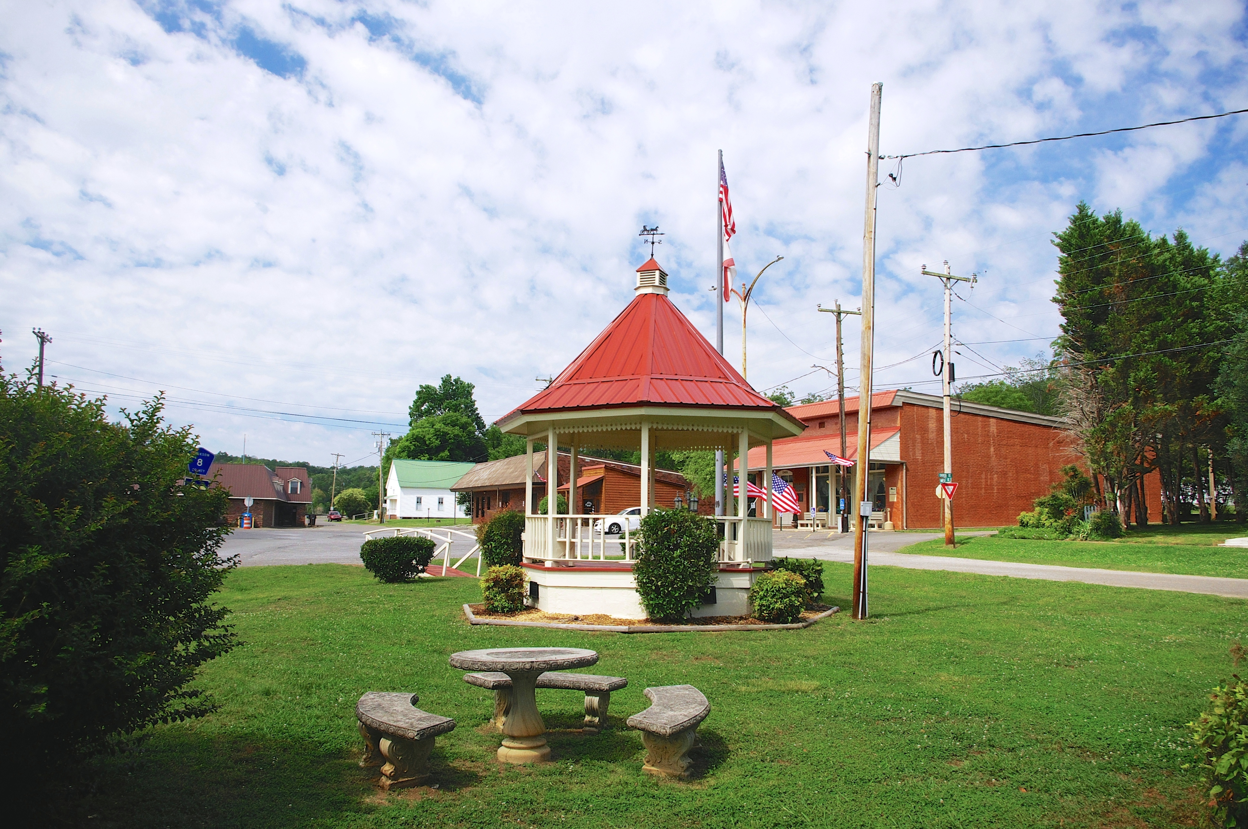 Gazebo in Woodville, Alabama, United States.